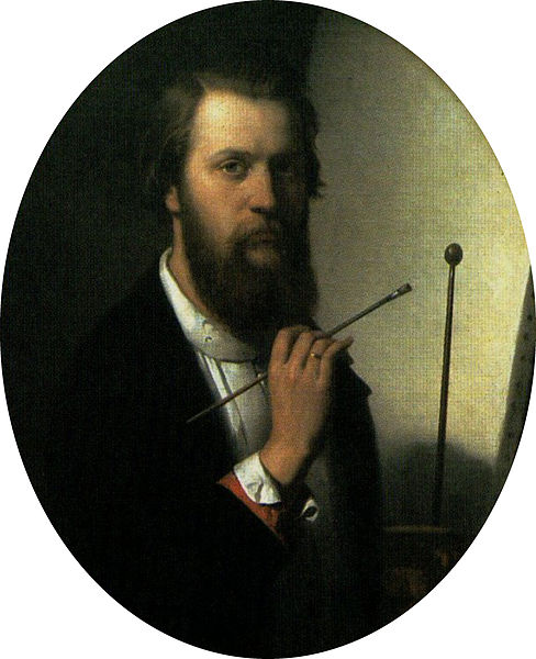 Paul Tétar van Elven (1823-1896), selfportrait